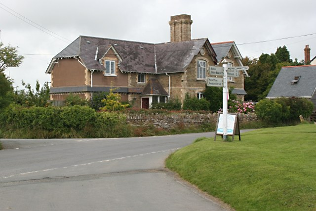 The Crossroads at Battisborough Cross Not really a major crossroads but notable for many people as the place you turn off to go to Mothecombe Beach.